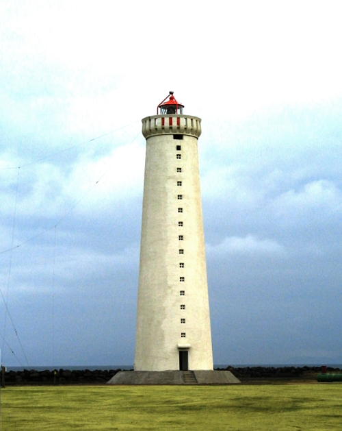 Gardskagaviti, Miðnes, Iceland Picture taken by me, on March 28, 2005 with a Canon Powershot Modified with the Gimp Released under the Gnu Free Documentation License